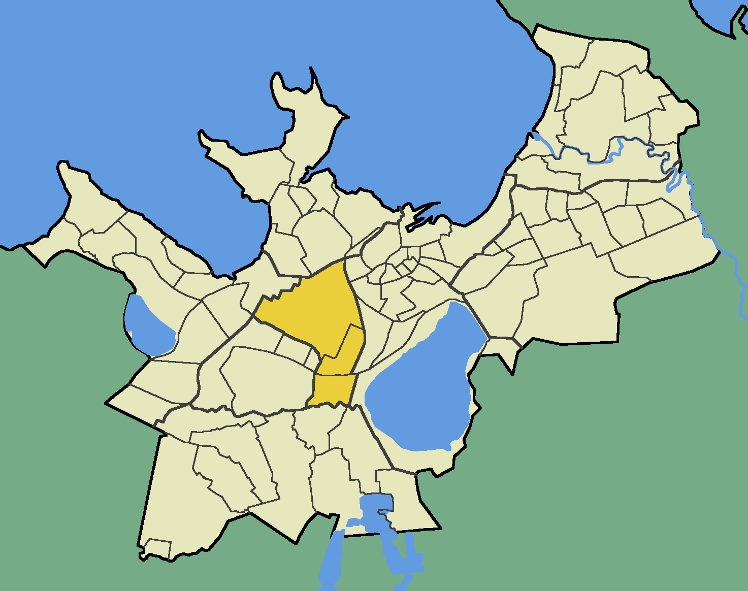 Map of Tallinn (Estonia) with borders of the quarters, Kristiine district emphasised